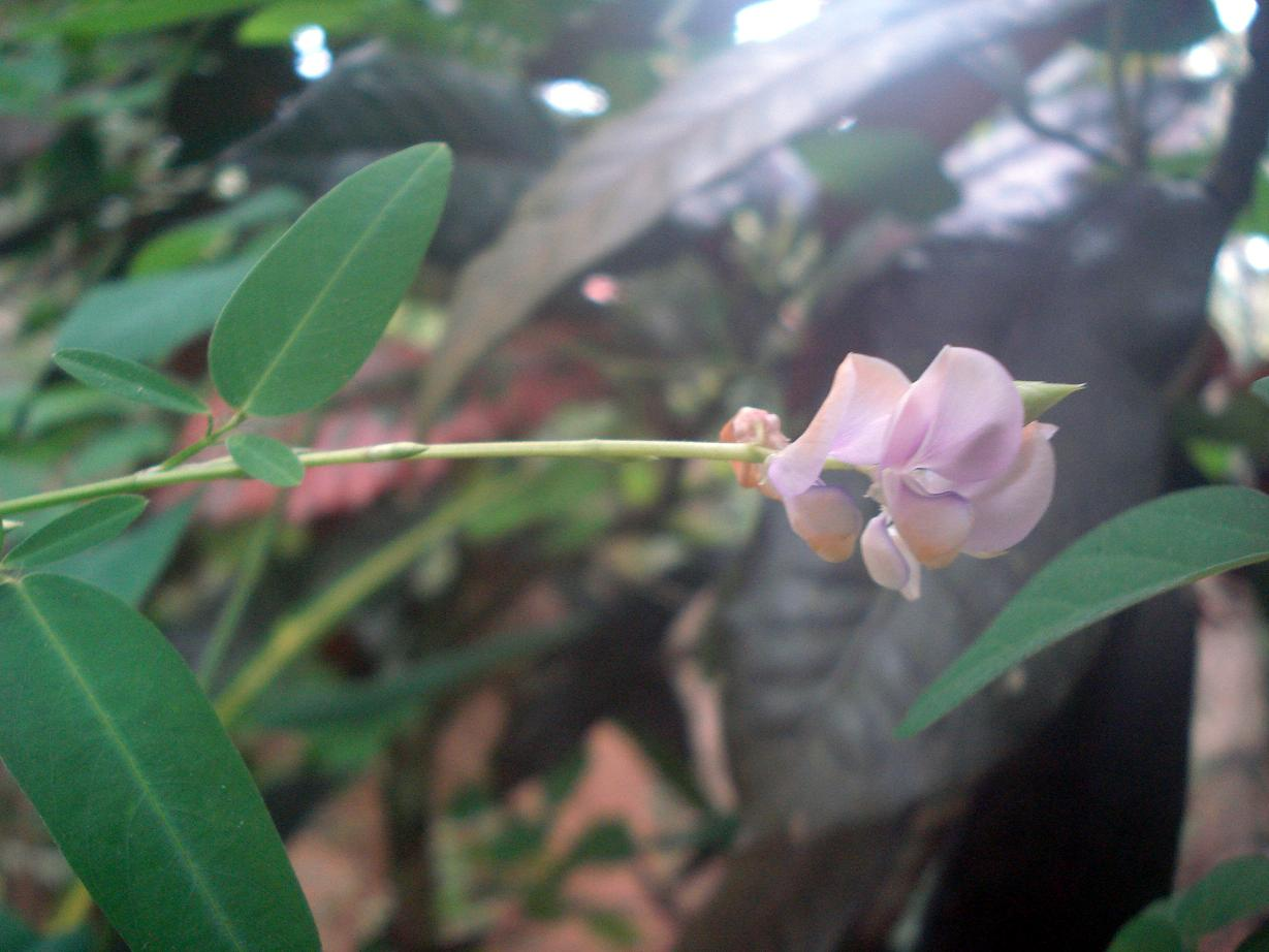 Name : Desmodium gyrans Family : Fabaceae